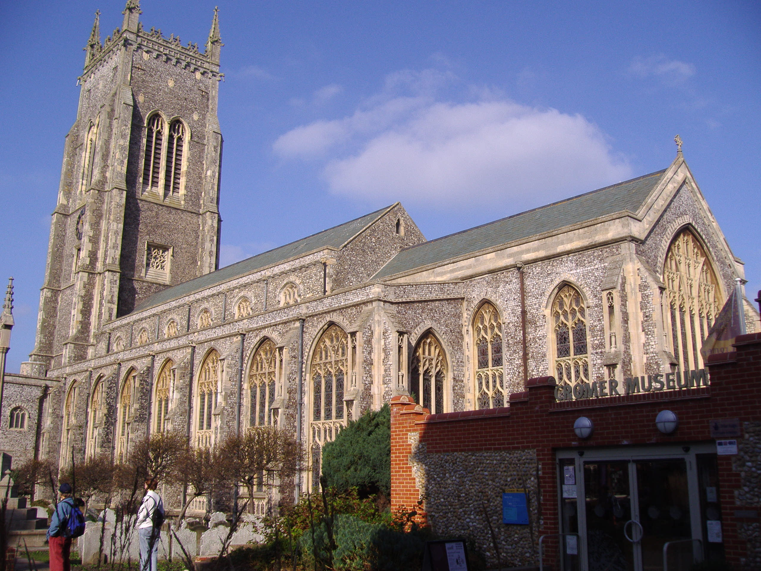 The parish church of Saint Peter and Saint Paul in Cromer, Norfolk. The tower is 48 metres (159 ft) high.